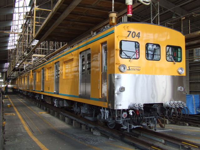 Series MOYA-700,Sagami Railway,Japan